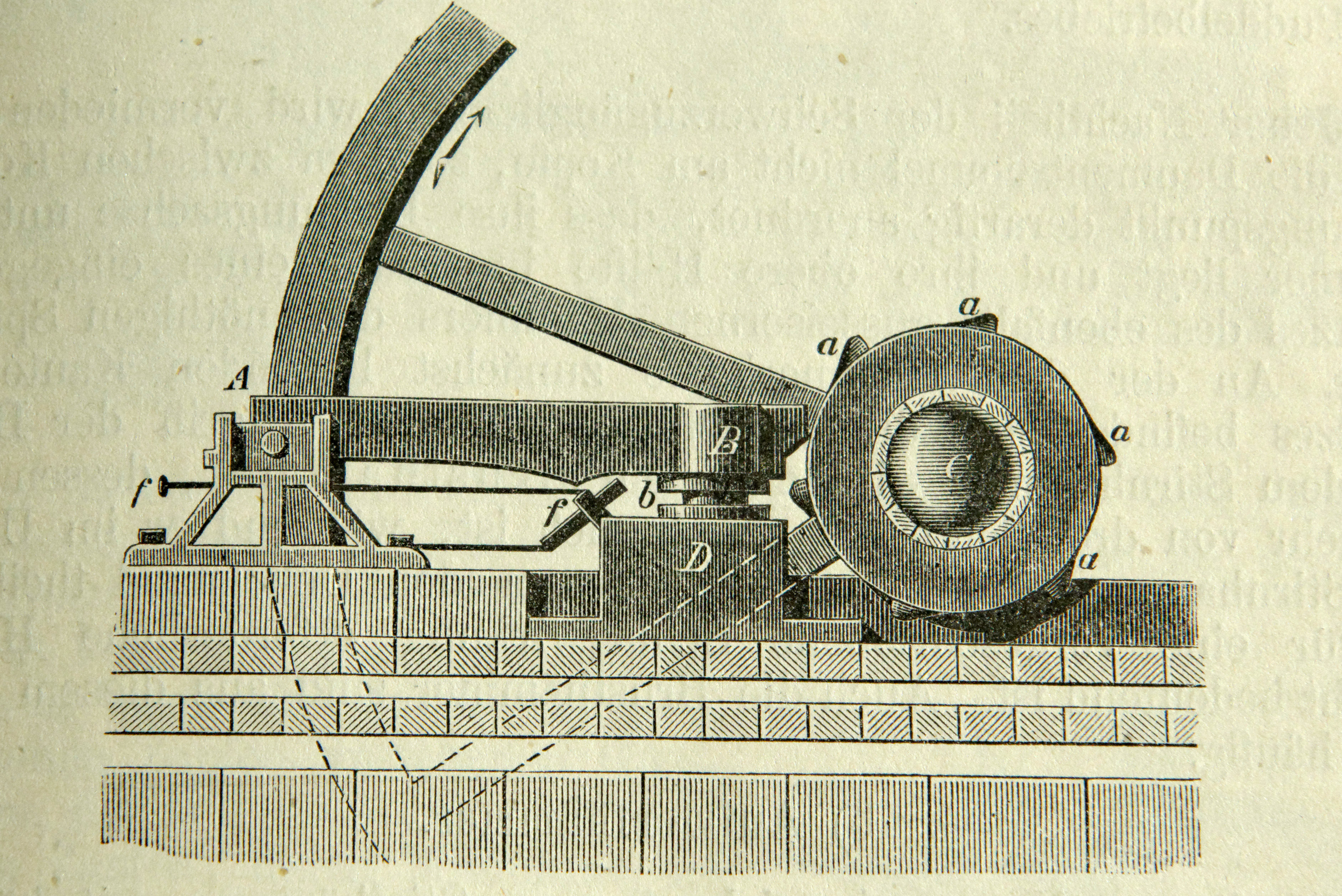 The making of this document was supported by the Community-Budget of Wikimedia Germany.